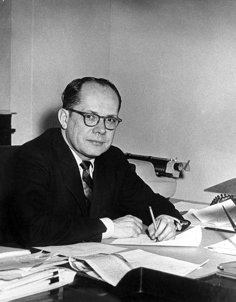 AR6295-N. Special Assistant to the President Frederick G. Dutton